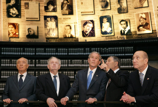 President George W. Bush listens to Avner Shalev, Chairman of the Yad Vashem Directorate, as he visits the Hall of Names in Yad Vashem, the Holocaust Museum, in Jerusalem Friday, Jan. 11, 2008. Joining the President in the visit are, from left, President Shimon Peres, of Israel; Josef Lapid, Chairman of the Yad Vashem Council, and Israel's Prime Minister Ehud Olmert. White House photo by Chris Greenberg